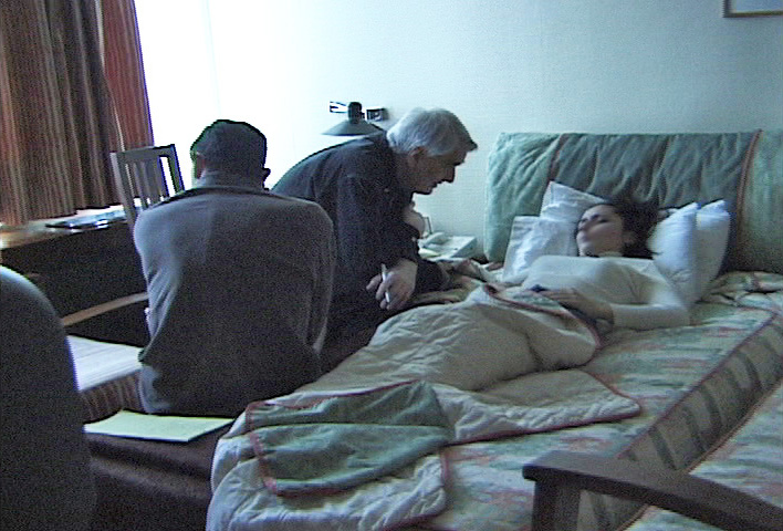 Hopkins and Mack jointly conduct hypnotic regression on a young Turkish woman, Istanbul, 1999